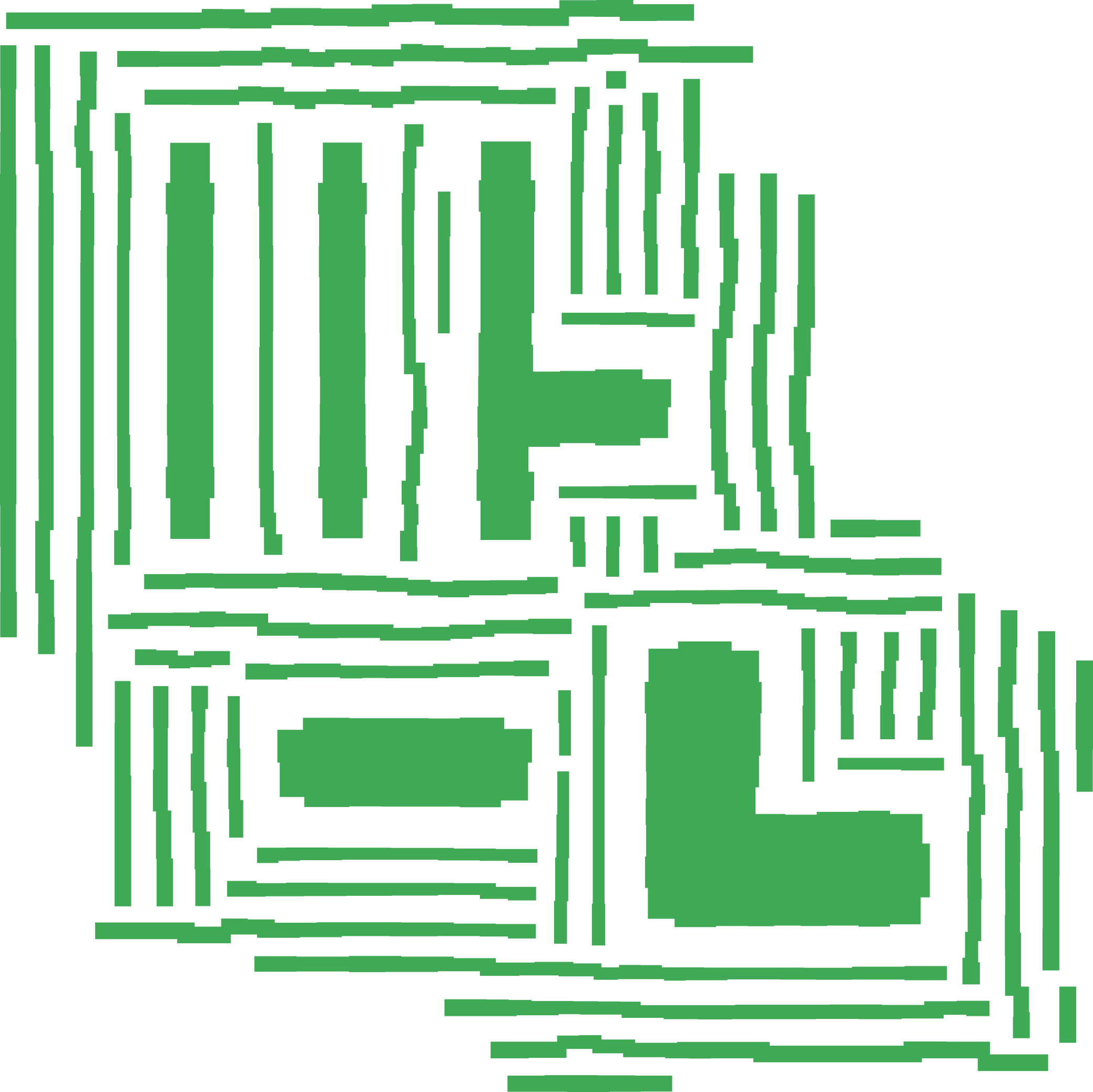 A realistic photomask. It is obtained by taking a polygon layout we desire to have on the wafer, adding to it assist features, and applying optical proximity correction.